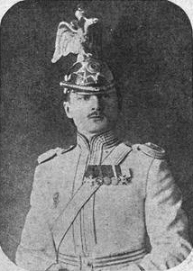 Voevodsky, Sergey Nikolayevich